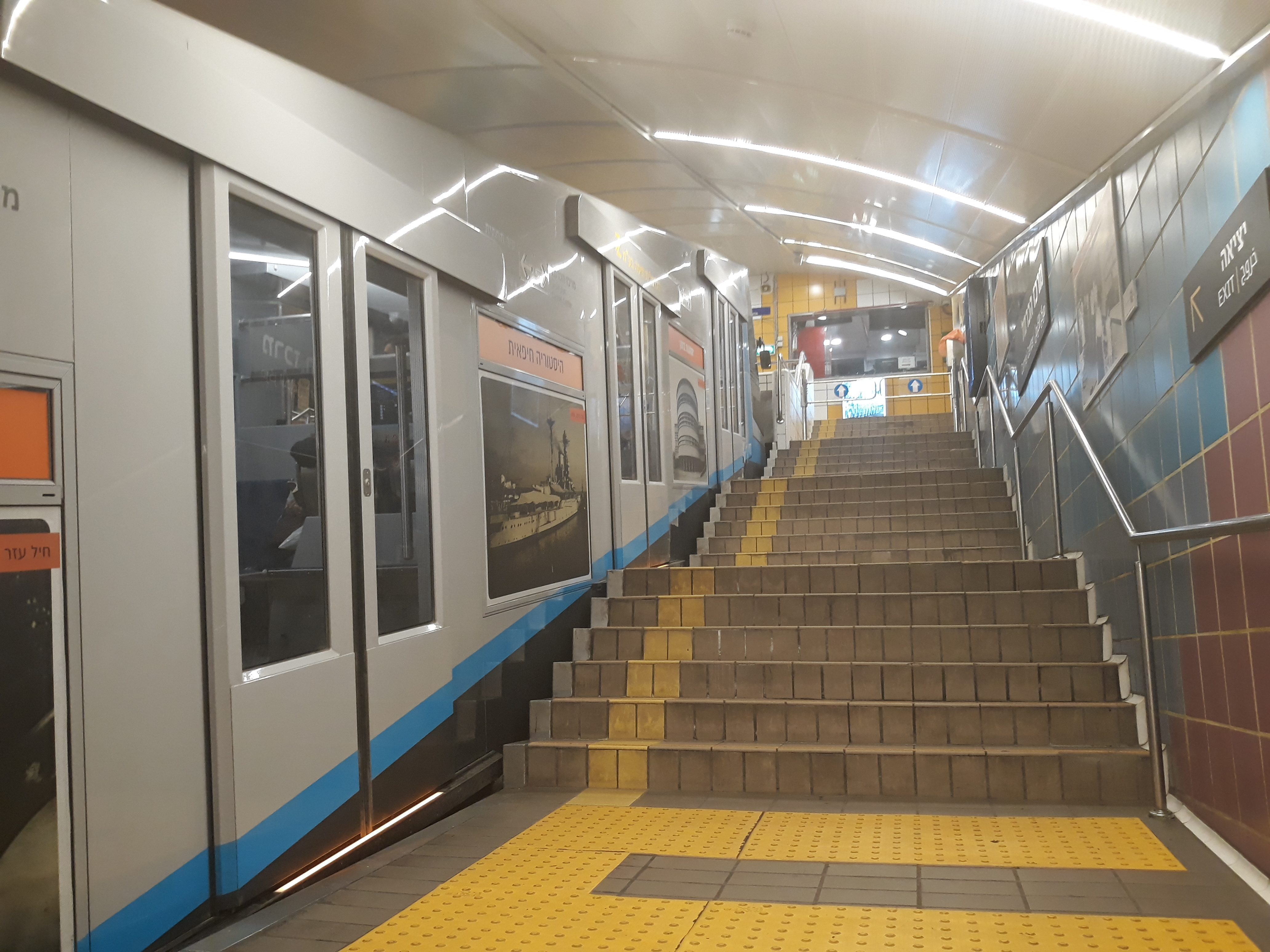 Carmelit subway in Haifa after its reopening in 2018